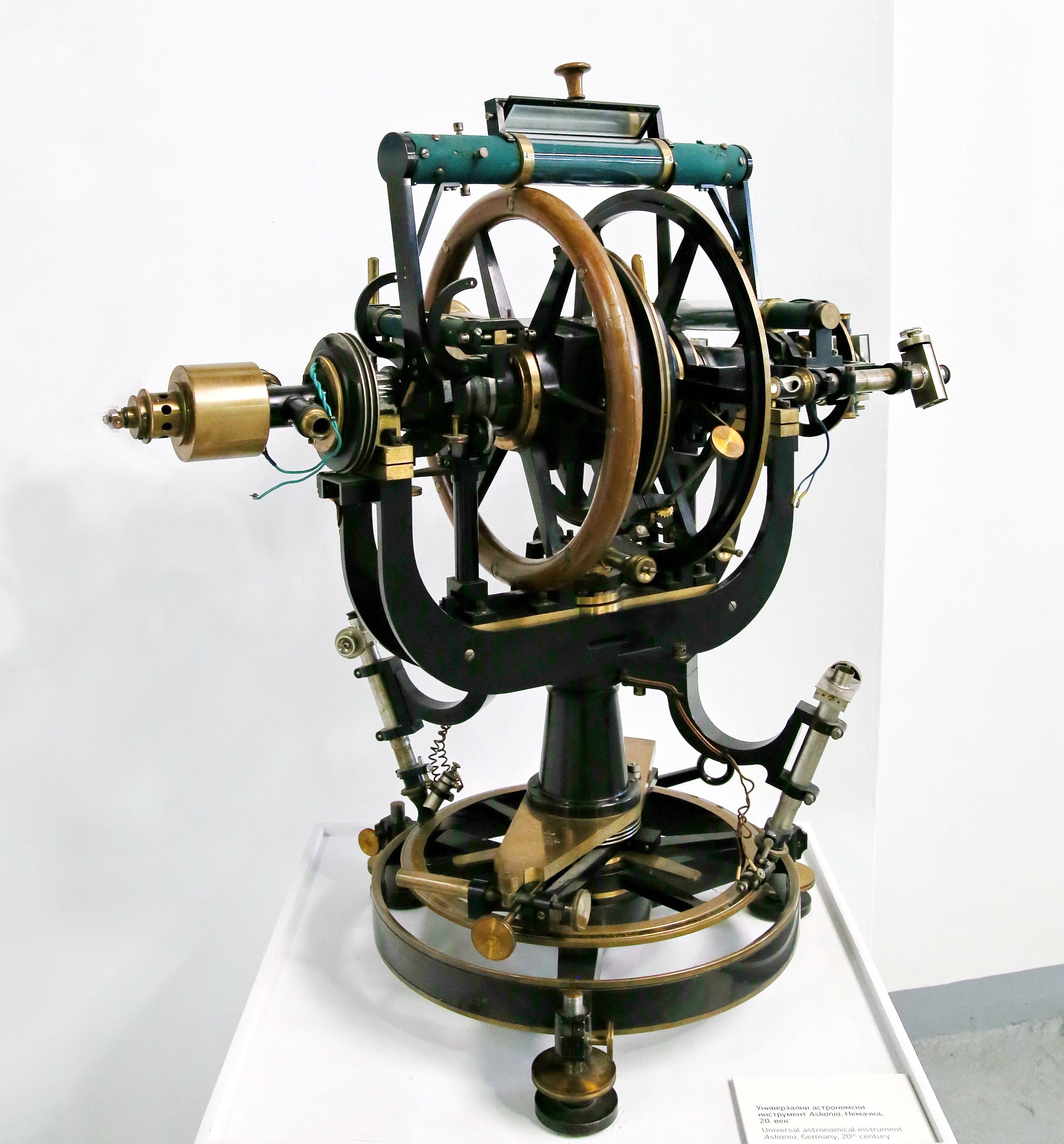 Universal astronomical instrument Askania, 20th century, Germany. It is located in Museum of Science and Technology Belgrade.